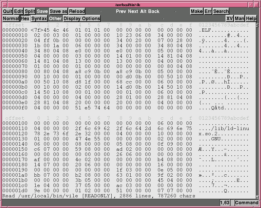 Screenshot of the Elvis text-editor which I made, showing its hexadecimal editing screen. Elvis is distributed under the "Clarified Artistic License", which grants free distribution of modified versions of Elvis provided that the changes are also made freely available or public domain.